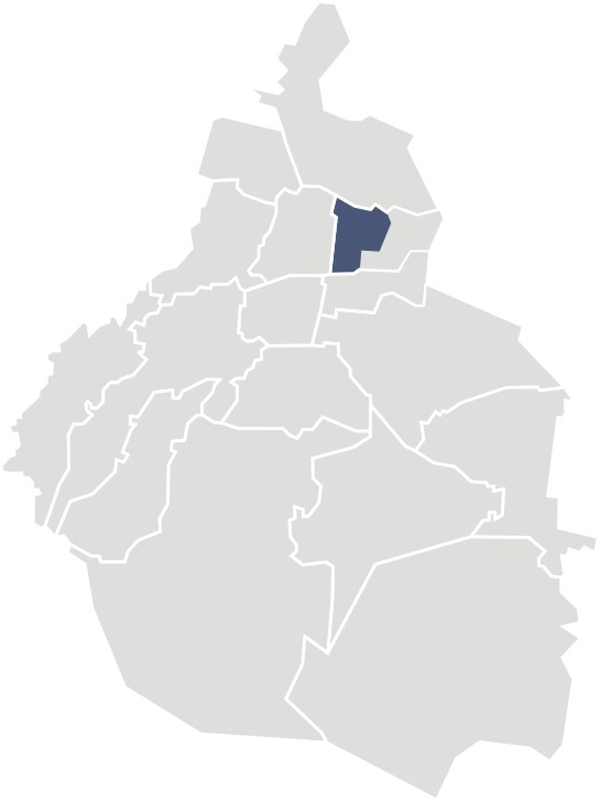 Map of the Ninth Federal Electoral District of the Federal District, México.